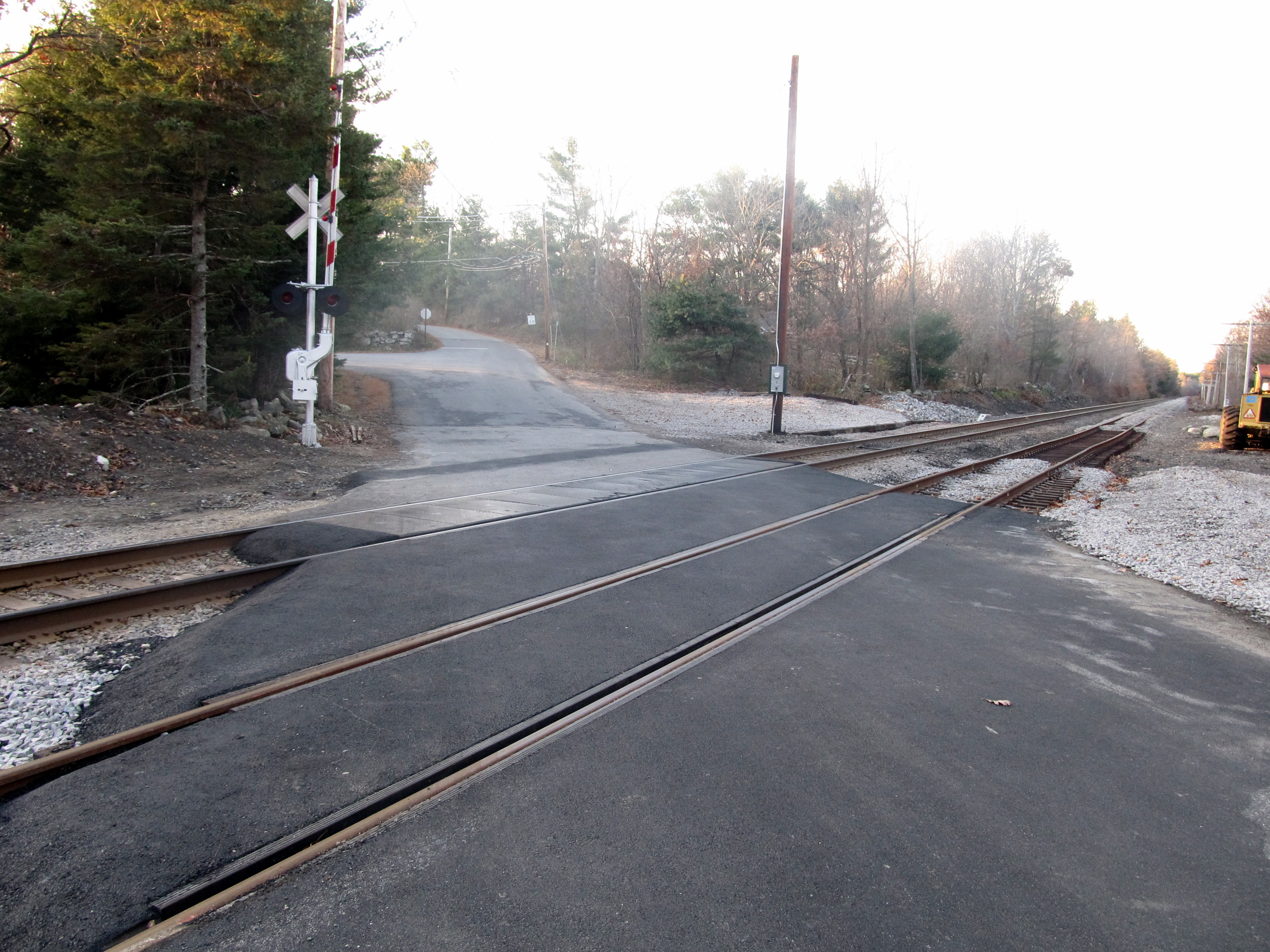 Newly installed second track at the Depot Road crossing in Boxborough, Massachusetts. Outbound is to the right; the new track is nearer to the camera.